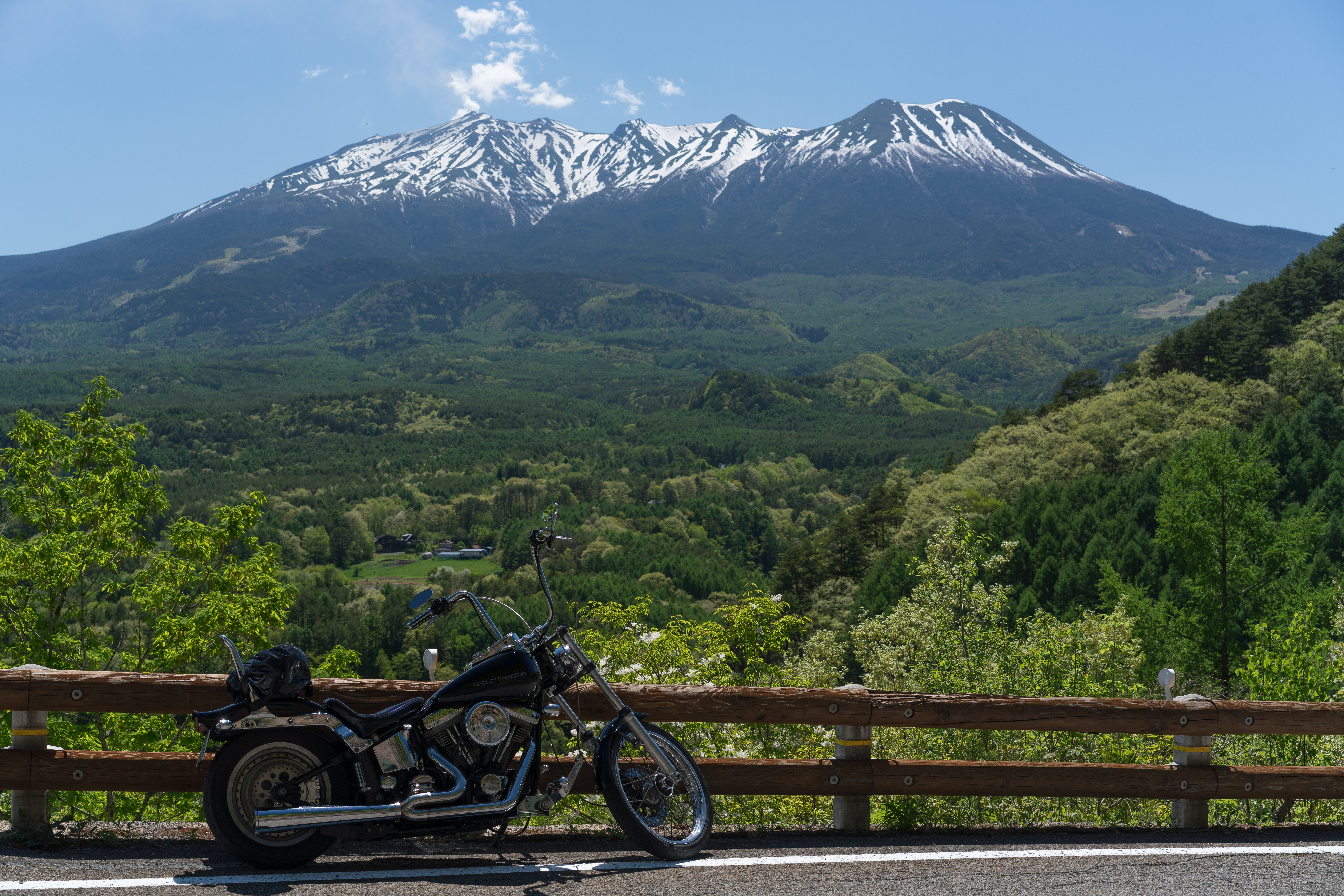 Ontakesan (aka. Mount Ontake) as seen from the ENE. Shot at nearby Kuzotoge loolout.